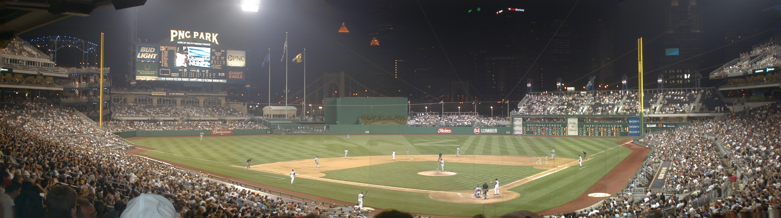 PNC Park nighttime panoramic picture